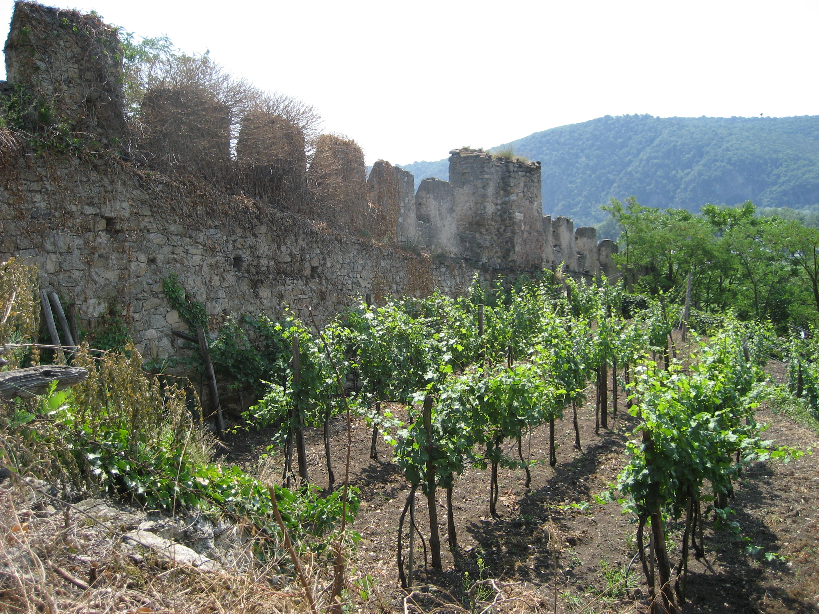 From the author "from the path up to Durnstein Castle, showing the ancient walls." =============== Here is an example in the Austrian wine region of Wachau of the "high culture" vine training developed by Lenz Moser where the grapes are trained high up off the ground, with leaves cut back, leaving lots of free space underneath.